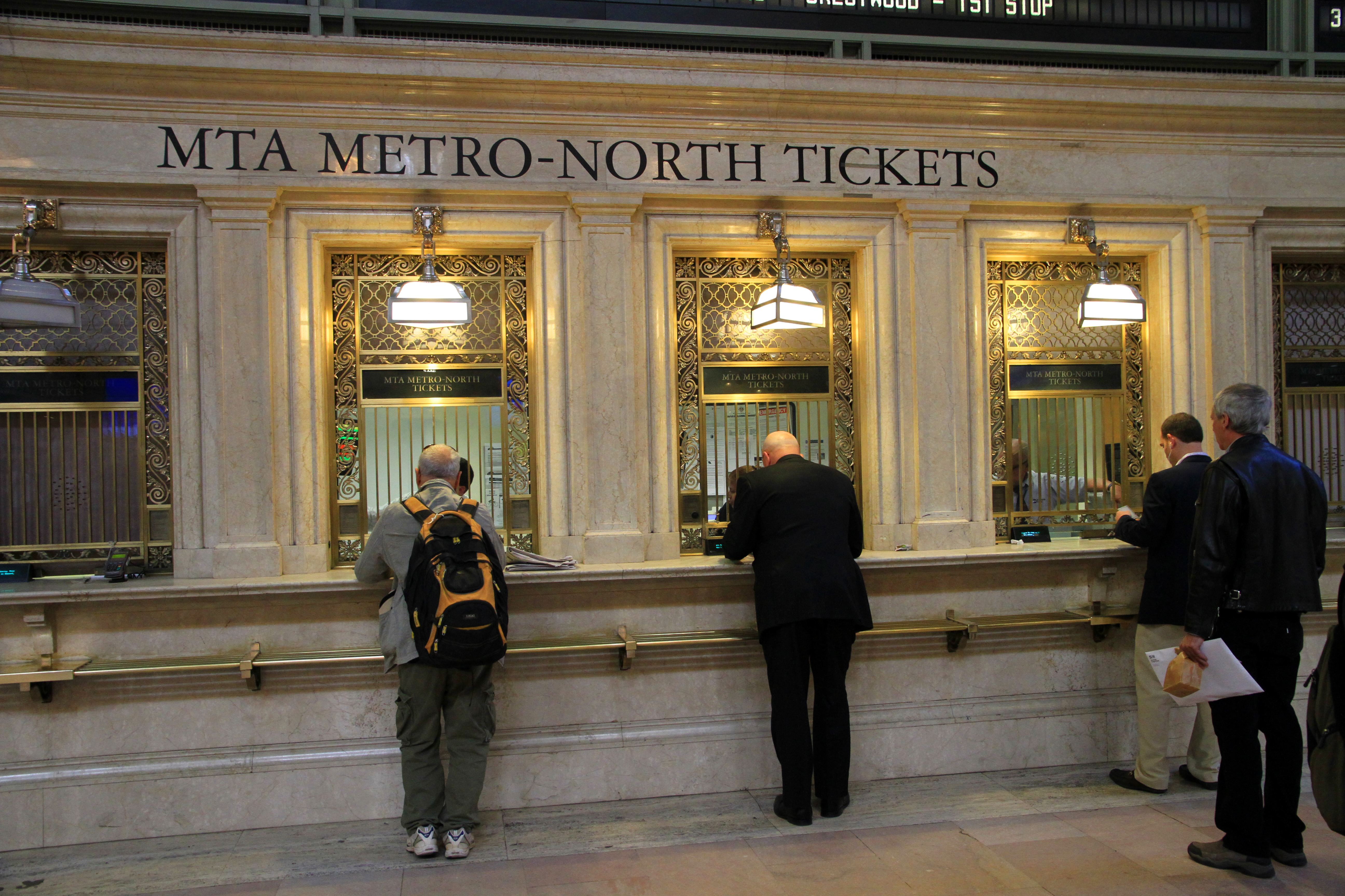 Grand Central Terminal